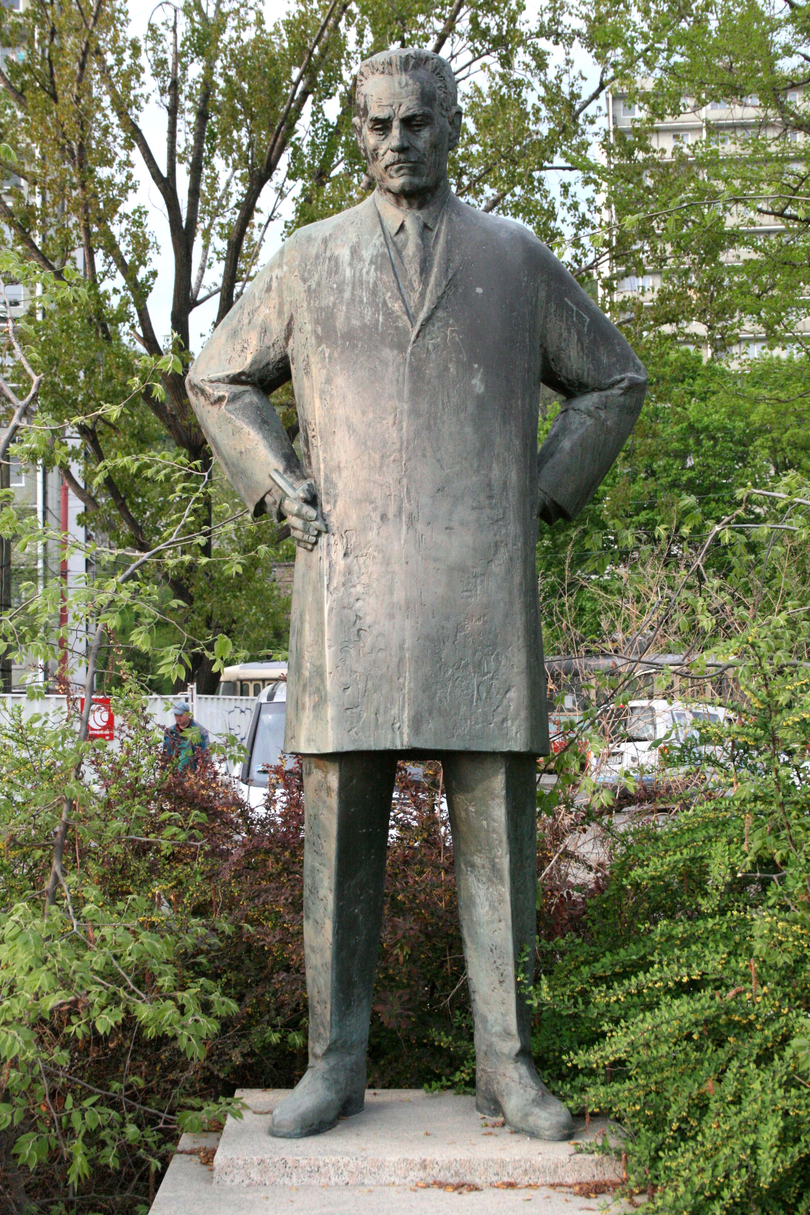 Bronzová plastika slovenského architekta Dušana Jurkoviča (1971)